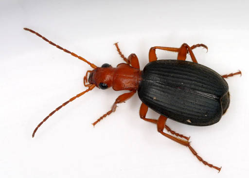 Bombardier Beetle, Brachininae sp., Orange County, North Carolina, United States. Length 13 mm.